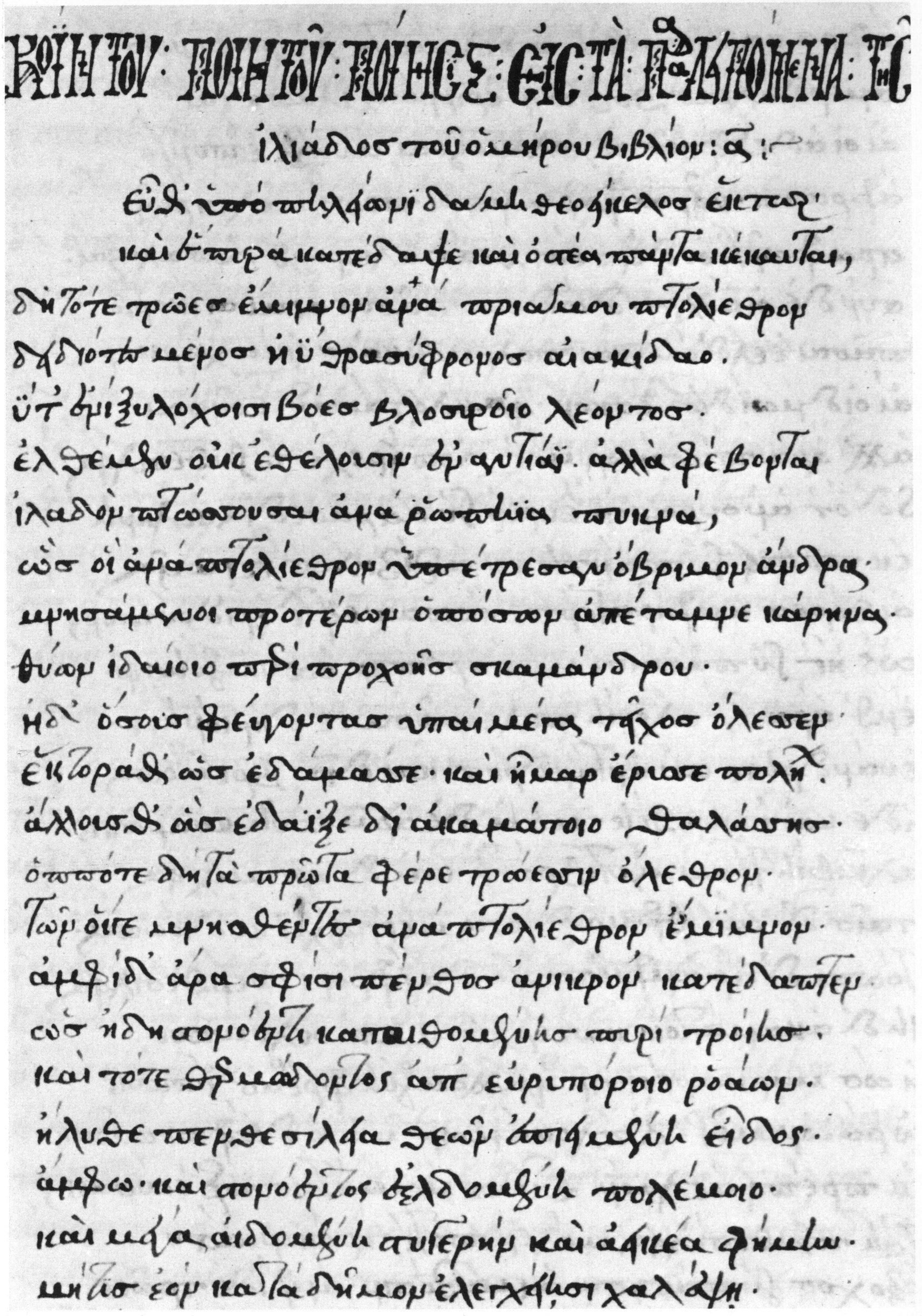 Quintus Smyrnaeus, Posthomerica I 1–22, in a manuscript written by Constantine Lascaris. Biblioteca Apostolica Vaticana, Vaticanus Ottobonianus graecus 103, fol. 5r.